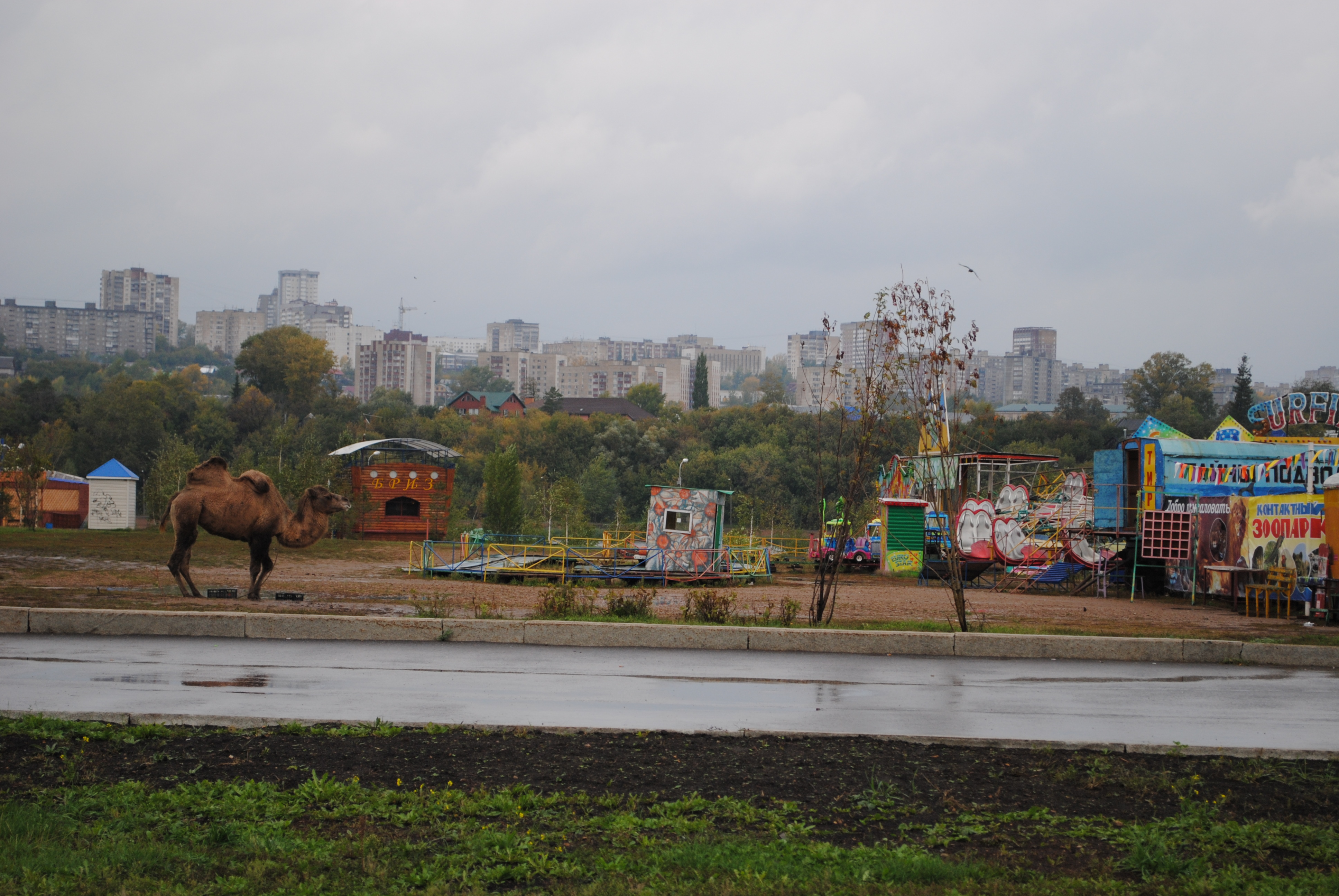 Sipaylovo disctrict in Ufa